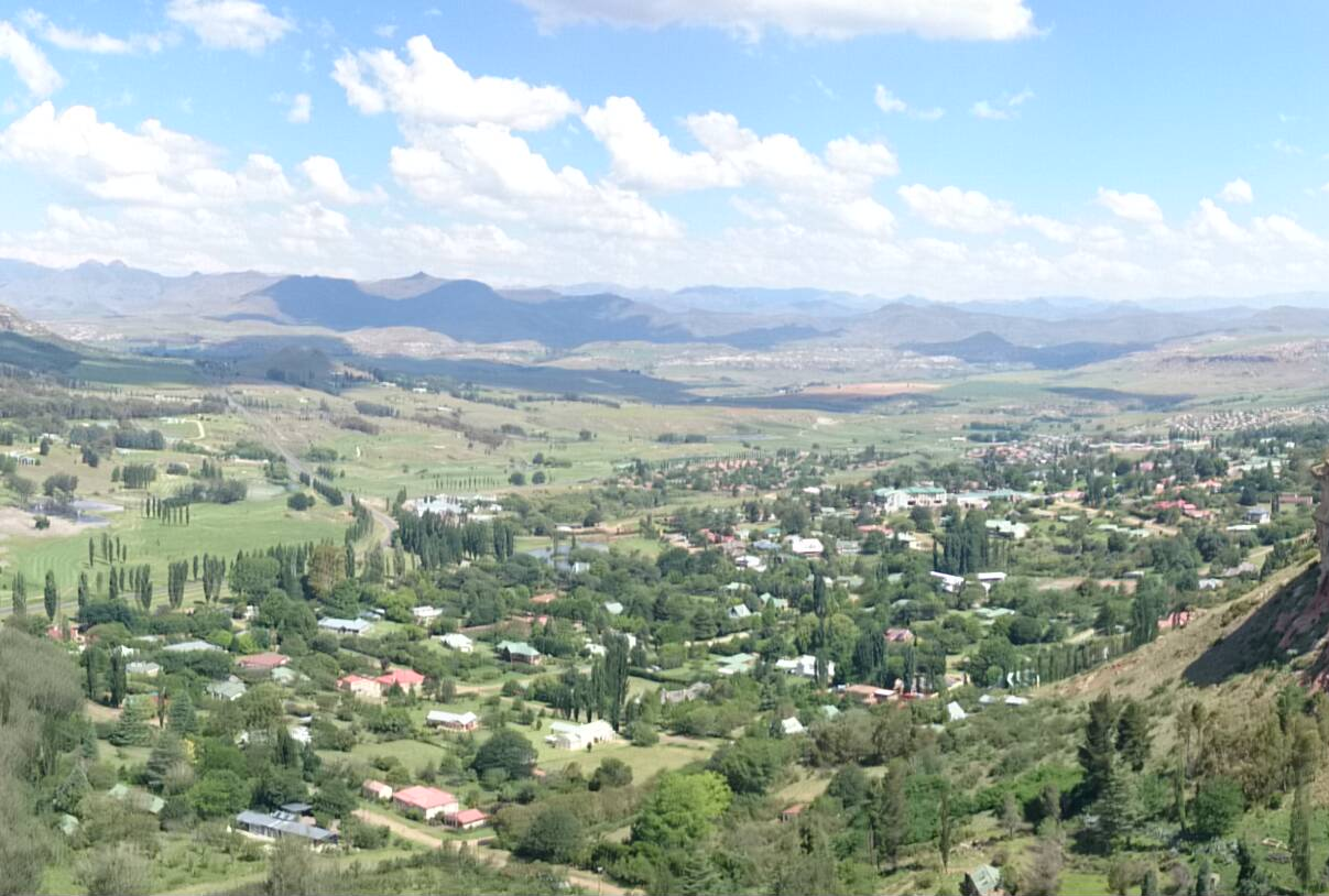 Taken while hiking in Clarens